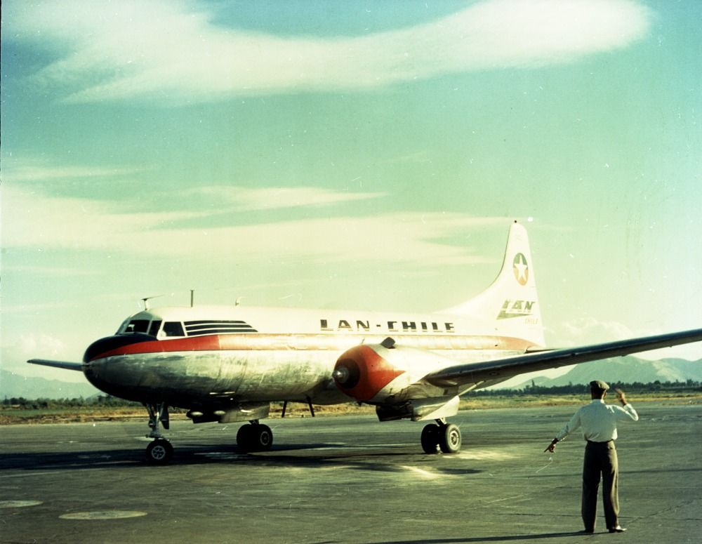 PictionID:44463330 - Title:Convair 440 Metroplitan LAN Chile copy 032-61 - Catalog:01_00093769 - Filename:01_00093769.tif - - - Image donated to SDASM from Convair/General Dynamics-- ---Please Tag these images so that the information can be permanently stored with the digital file.---Repository: San Diego Air and Space Museum